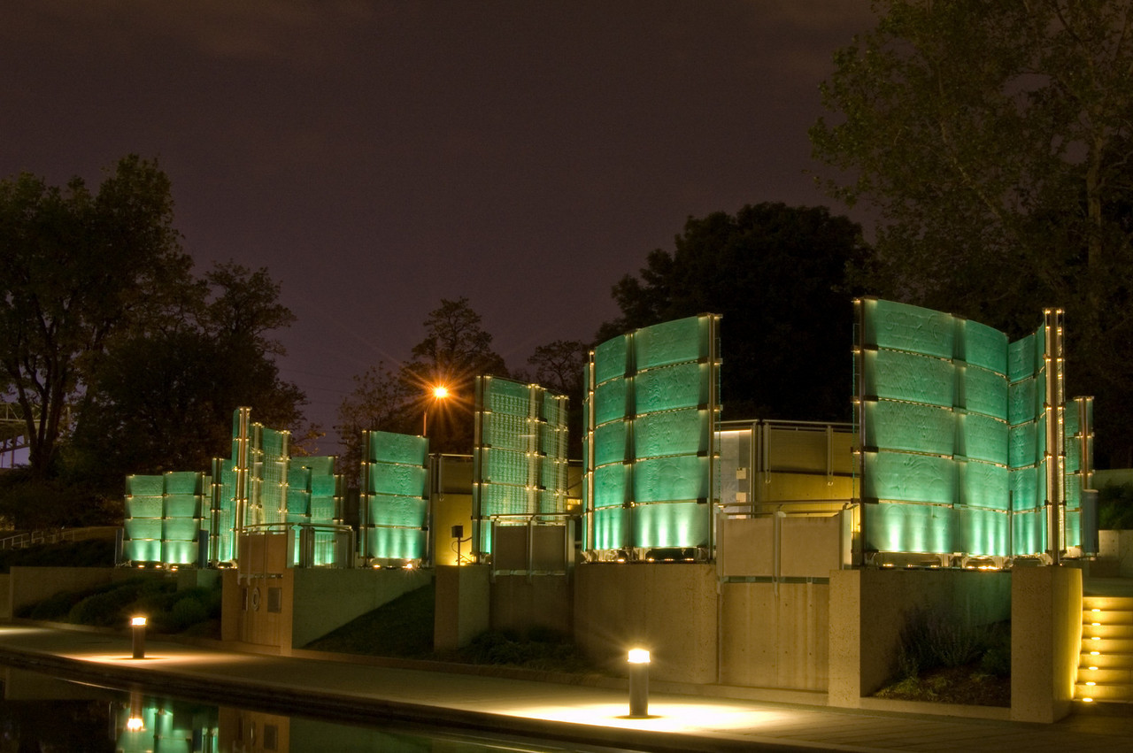 Medal of Honor Memorial in Indianapolis — shot at night. On the Indianapolis Canal Walk, in White River State Park.